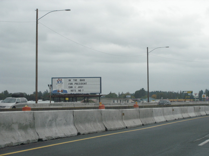 Billboard alongside Interstate 5 in Washington in October 2007